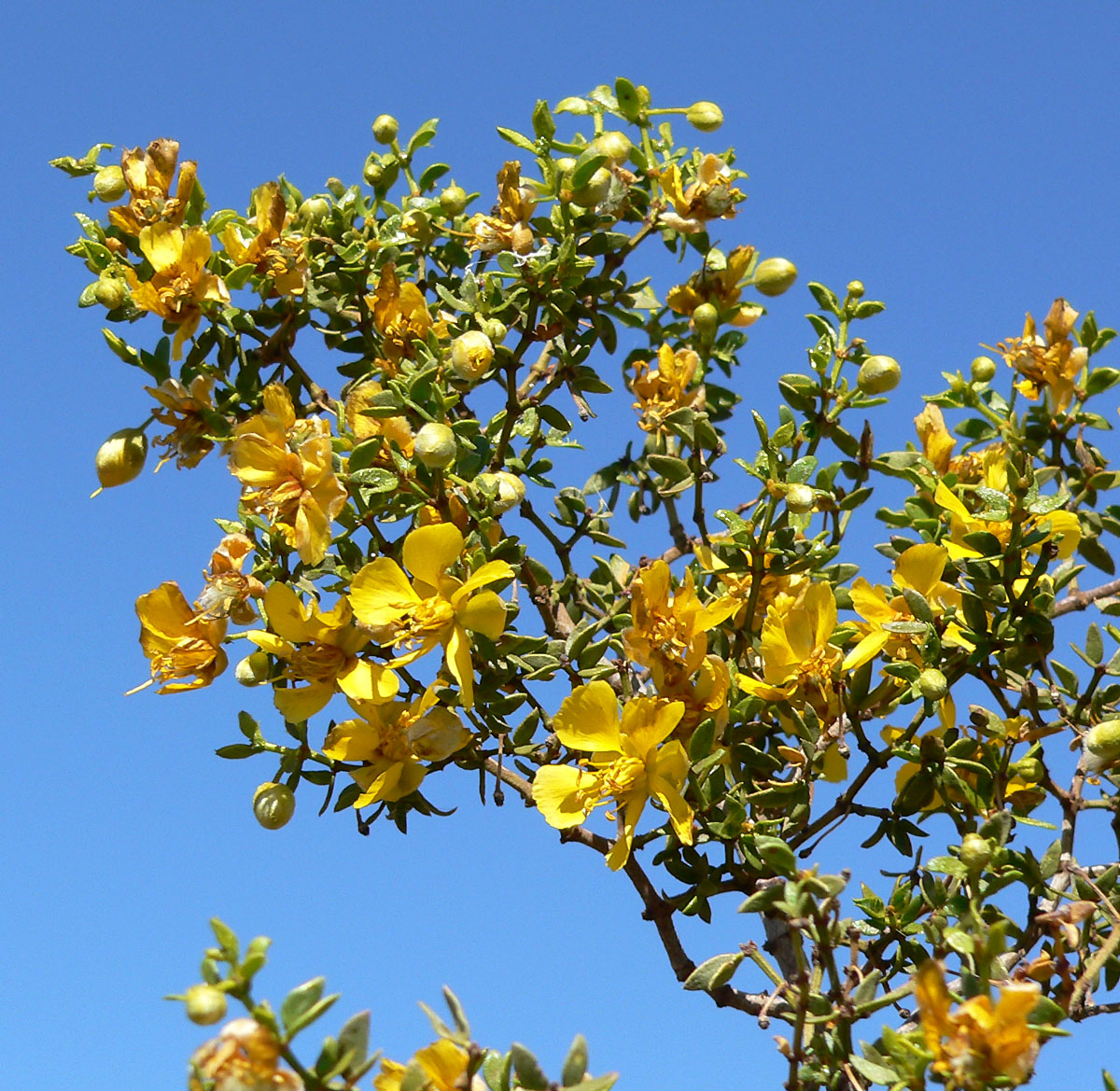 Larrea tridentata in Kyle Canyon, Spring Mountains, west of Las Vegas, Nevada